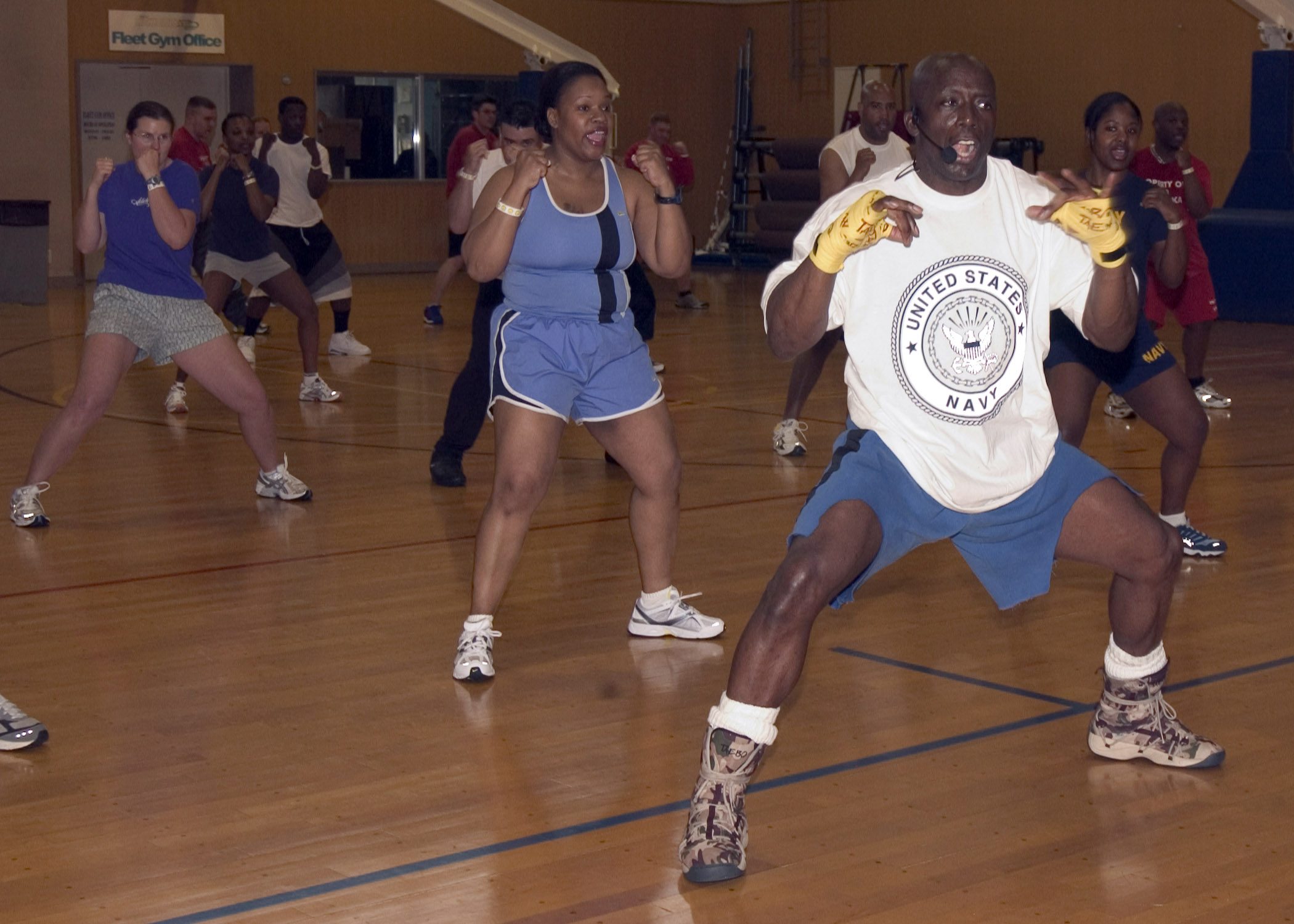 Yokosuka, Japan (April 7, 2006) - Billy Blanks, creator of Tae Bo, instructs a class at Commander, Fleet Activities Yokosuka Japan's Fleet Recreation Center for active duty personnel stationed in the area. Although the recent Tae-Bo mania may lead you to believe that this is a new invention, Blanks has actually been teaching Tae-Bo for over 12 years. U.S. Navy photo by Photographer's Mate 1st Class Crystal Brooks (RELEASED)